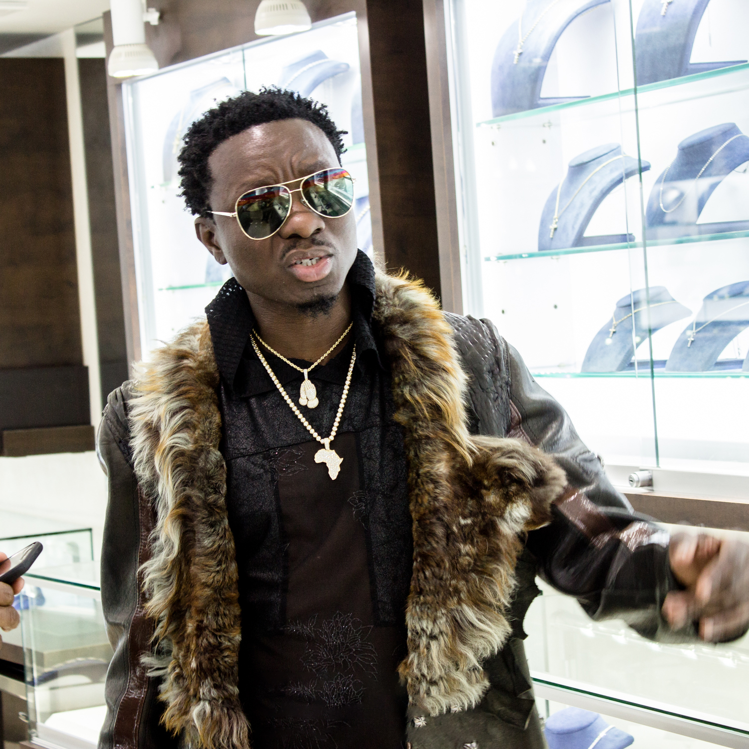 Michael Blackson in 2019